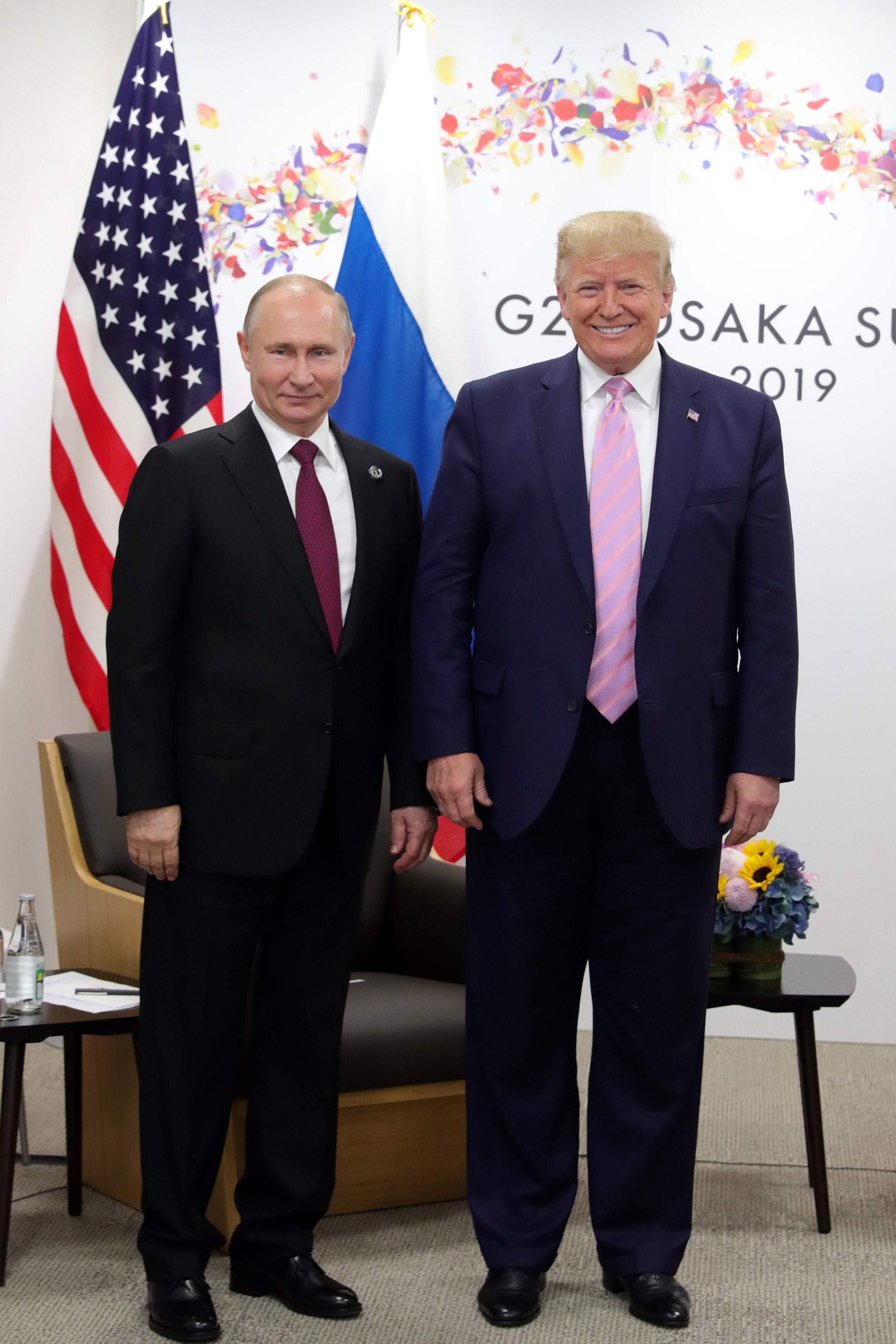 With President of the United States Donald Trump.